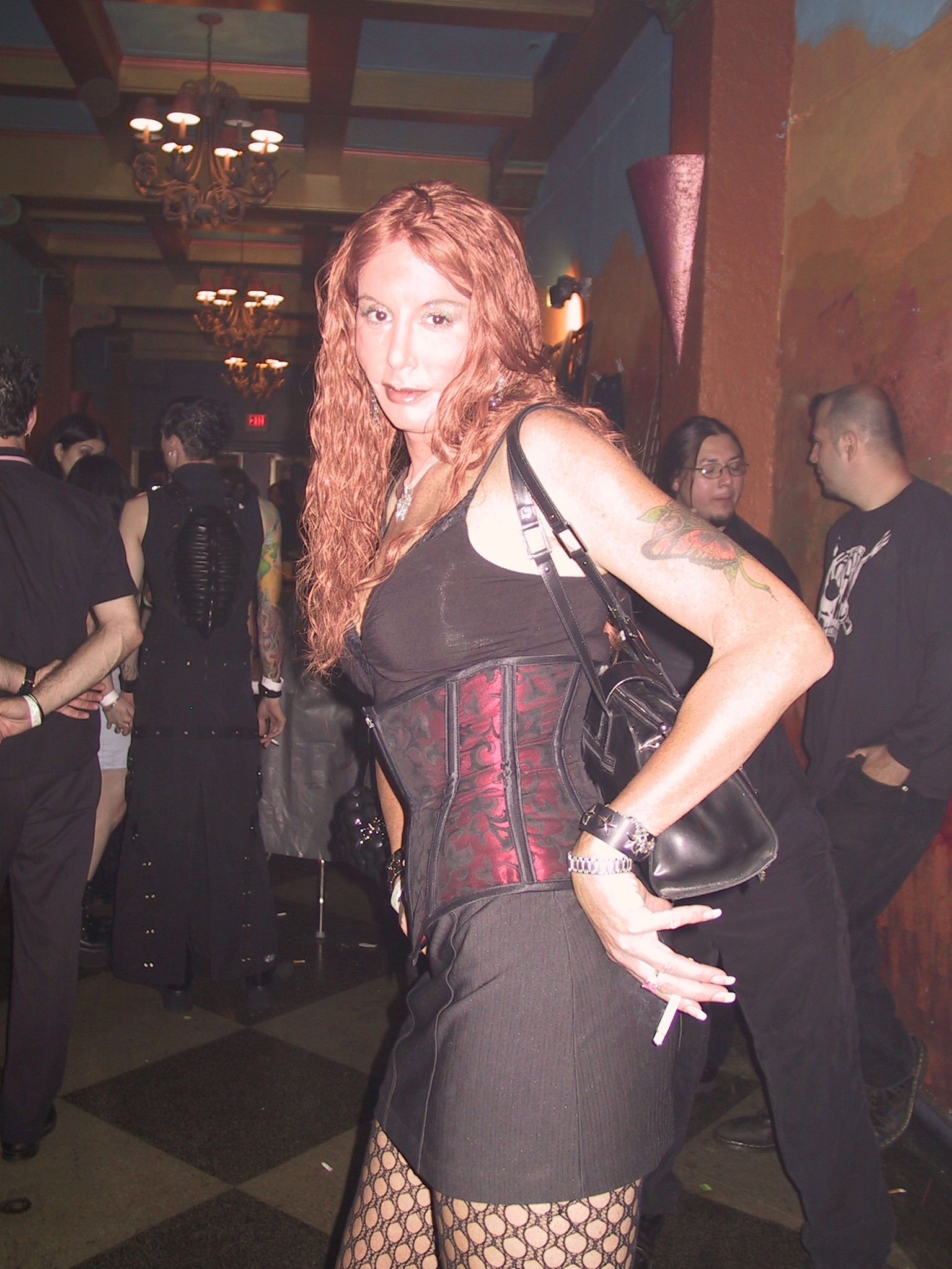 Michael Berke